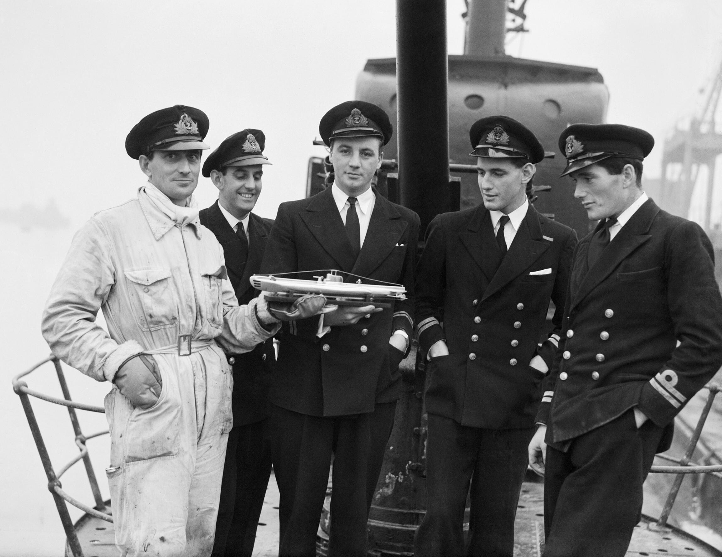 The officers of HM Submarine SERAPH on her return to Portsmouth after operations in the Mediterranean, 24 December 1943. left to right: Warrant Engineer M N Stevenson, DSC Lieutenant F G Harris, RNVR Lieutenant R Norris, RNVR, of Bournemouth Lieutenant N L A Jewell, MBE, RN. the commanding officer Lieutenant W D Scott, RN studying a model submarine made by Warrant Engineer Stevenson. Comment : they are standing forward of the conning tower. Behind them is the QF 3-inch 20 cwt dual-purpose gun.